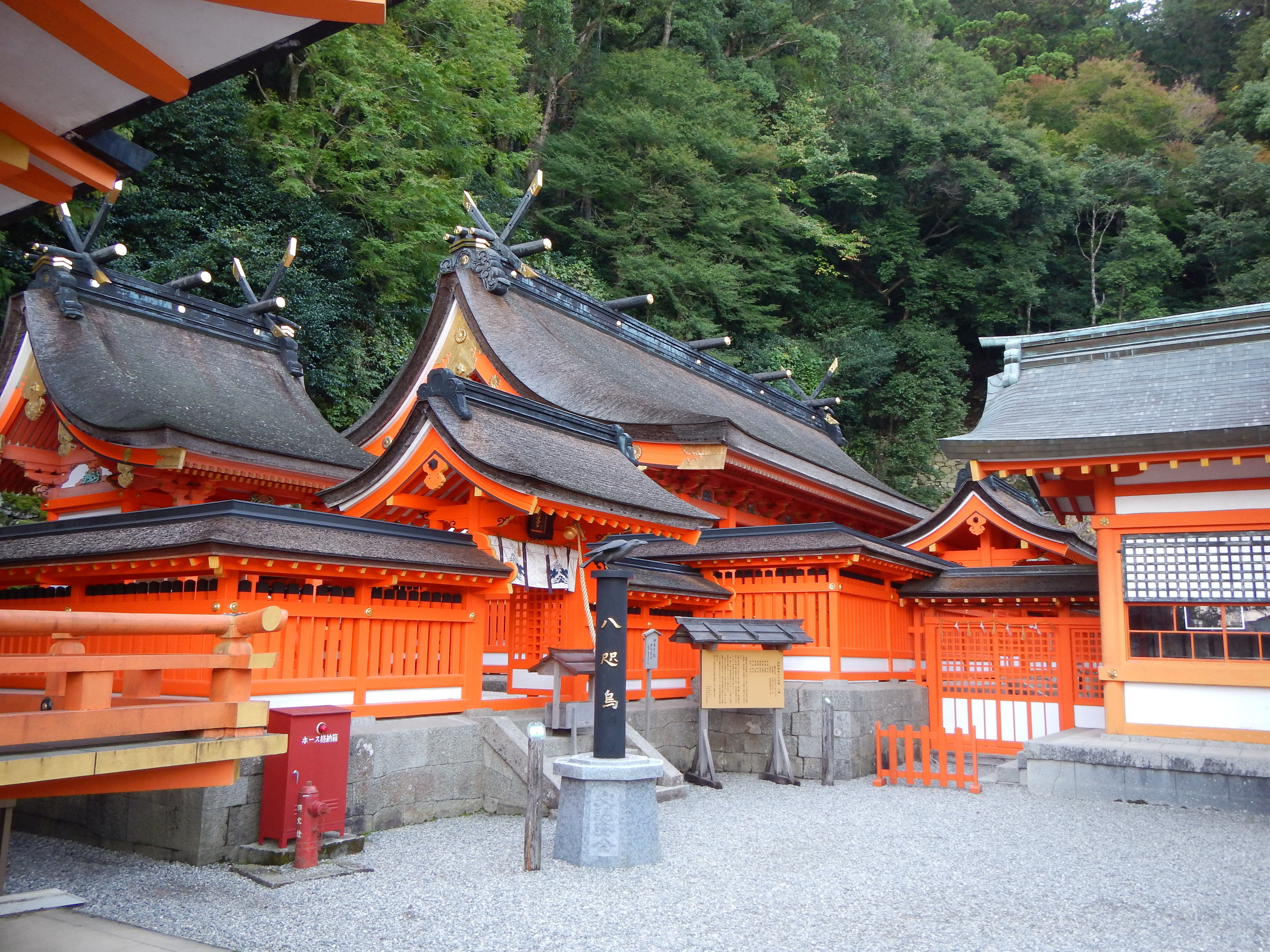 Kumano Kodo pilgrimage route Kumano Nachi Taisha World heritage 熊野古道 熊野那智大社